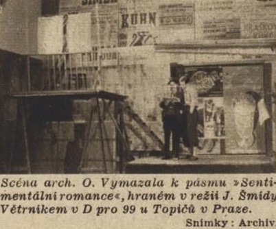 Theatre Větrník, "Sentimentální romance", Prague, 1943